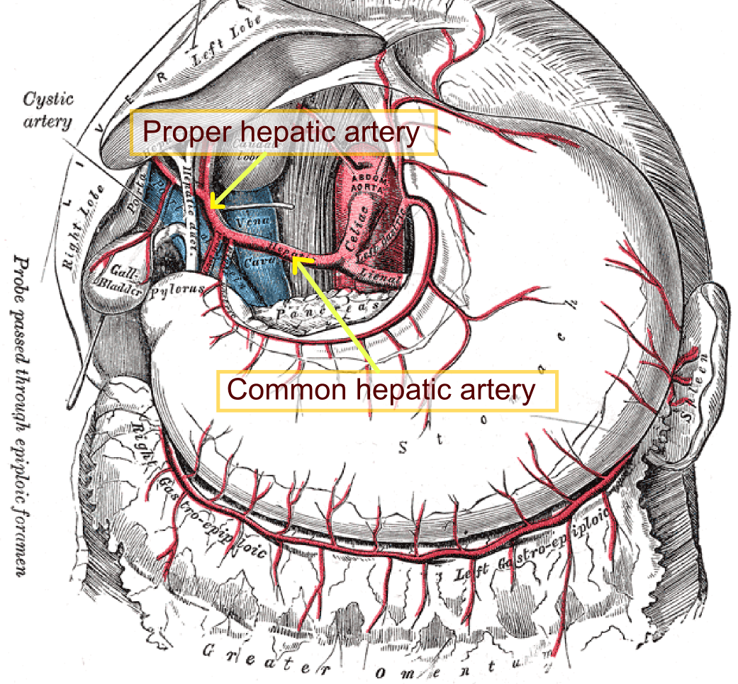 Common and proper hepatic artery. Reference: Molecular Therapy.